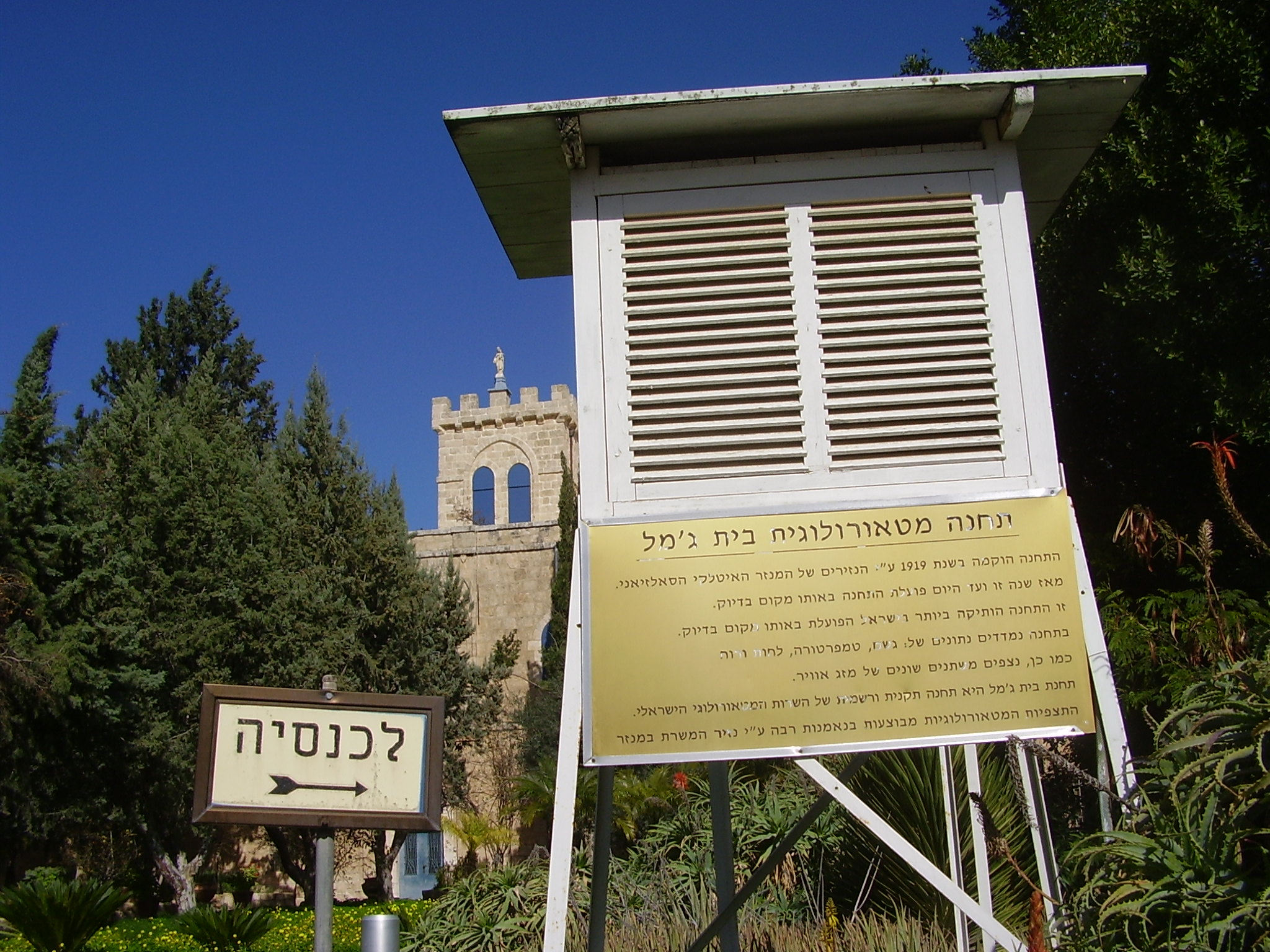 beit gemal monastery